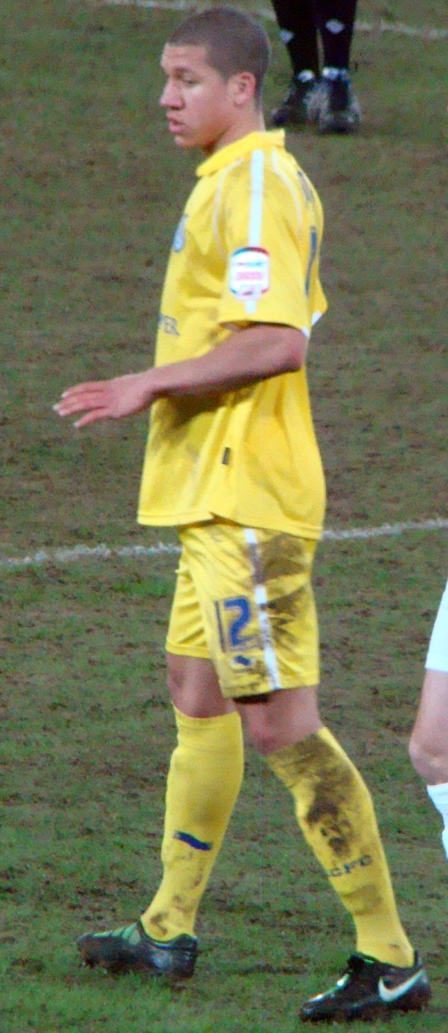 22/02/11 Cardiff V Leicester, Championship, Cardiff City Stadium, Cardiff, Wales